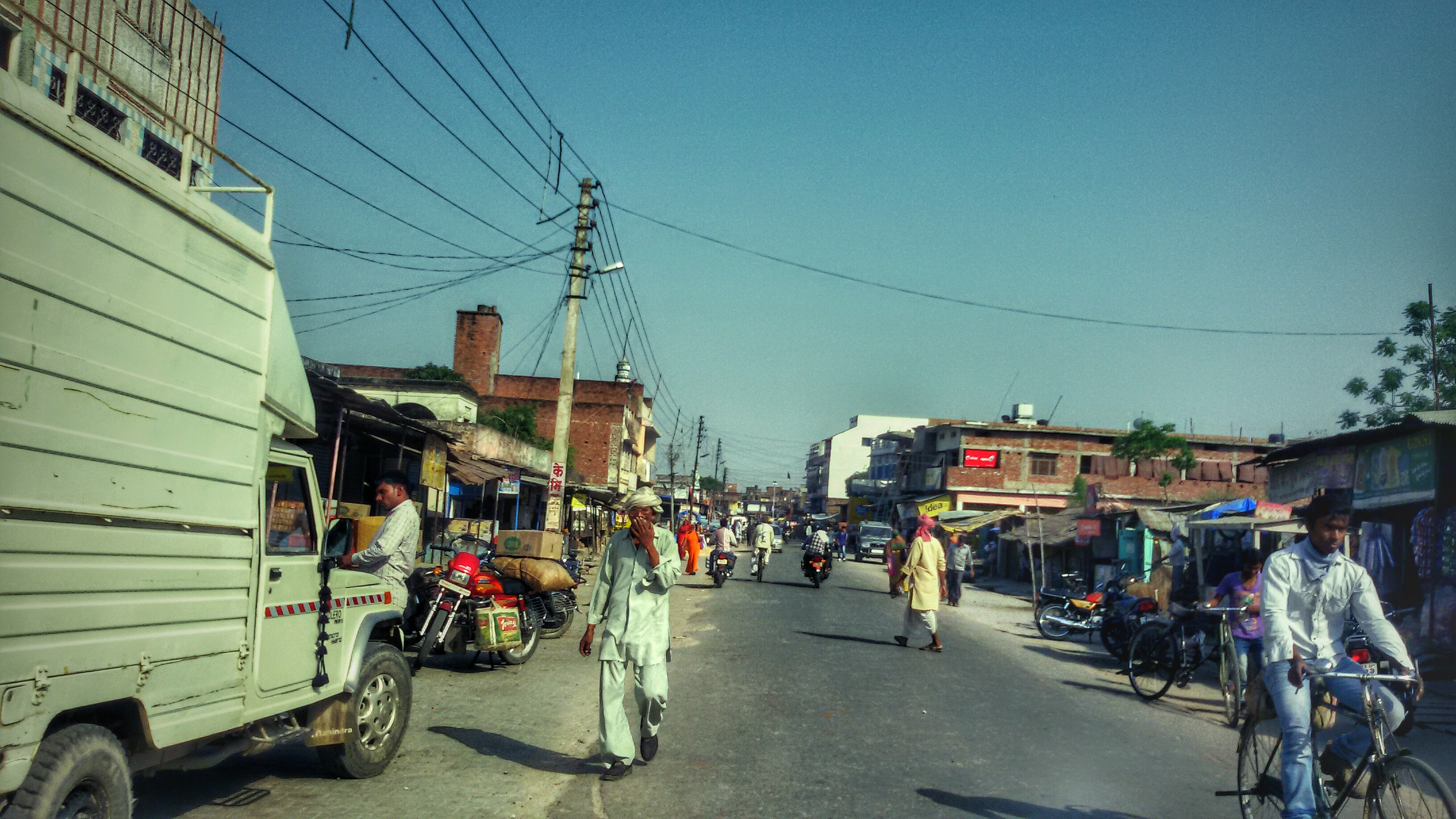 This is my home twon